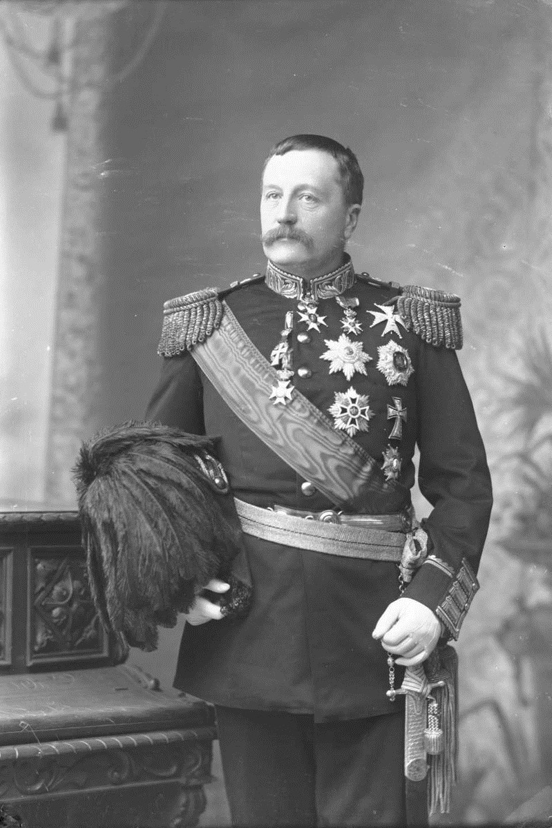 Frederik Wilhelm Treschow (1814-1901), Norwegian industrialist and courtier.